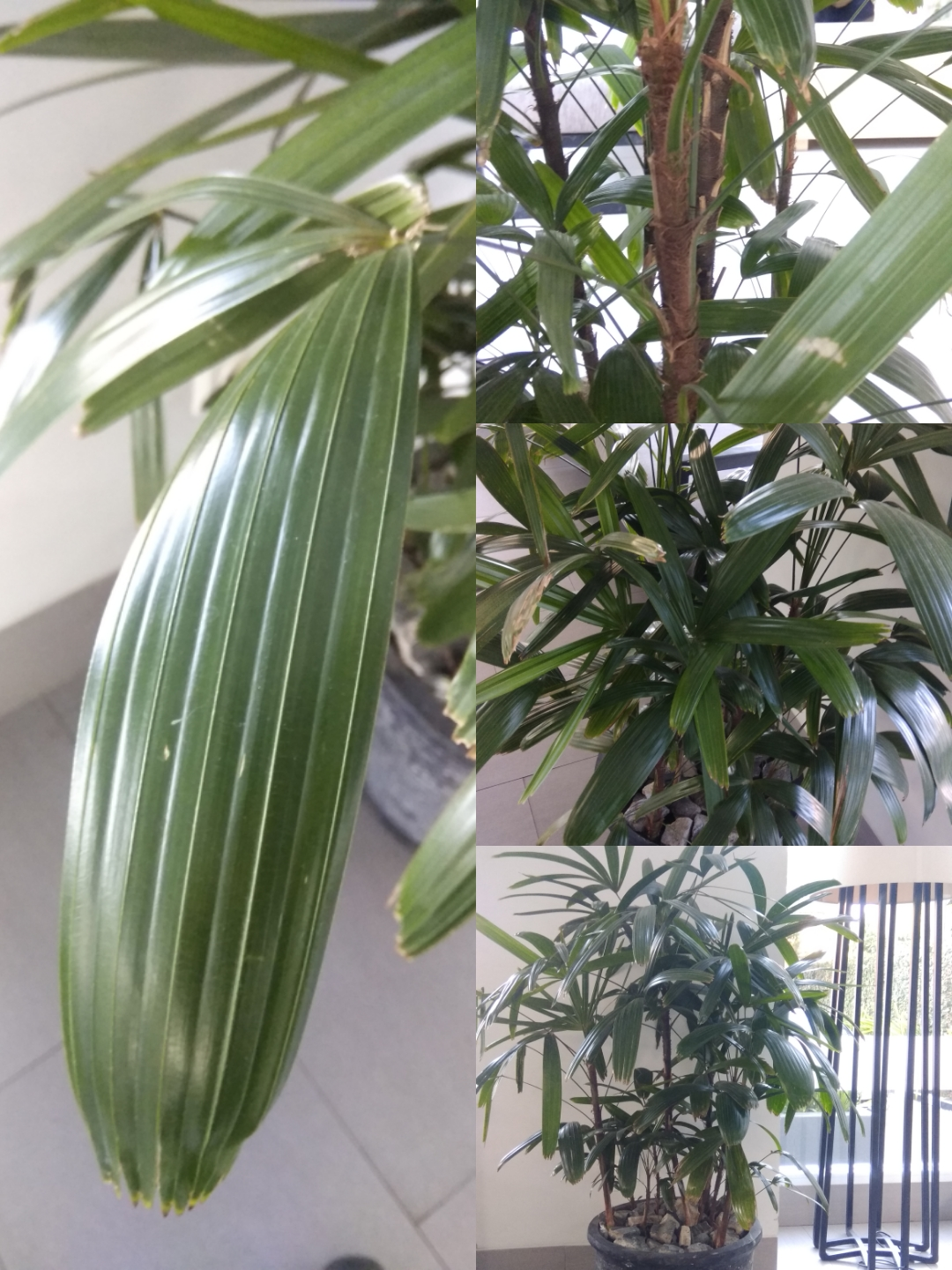 Rhapis excelsa